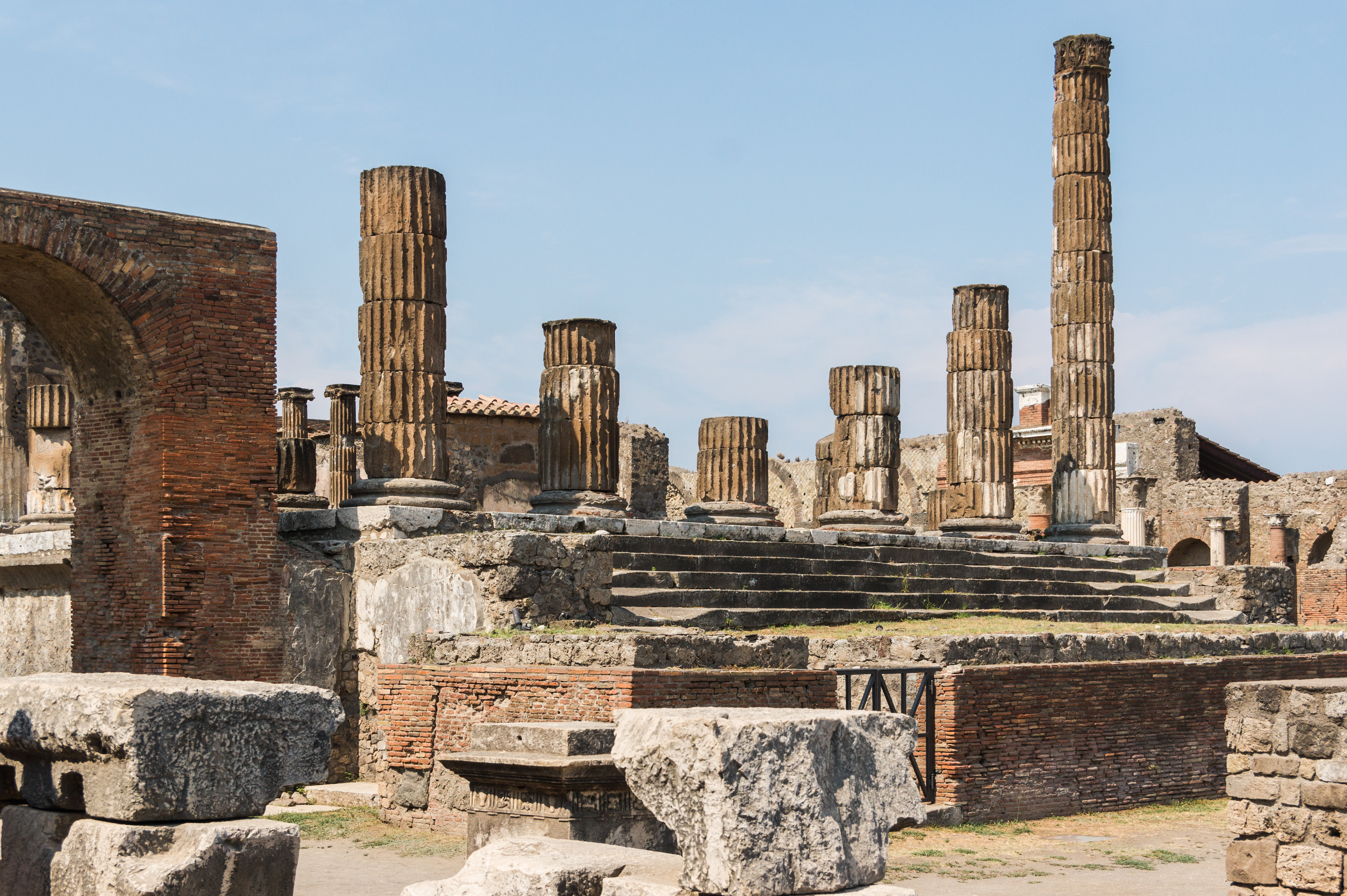 Temple of Jupiter, Pompeii, Italy.